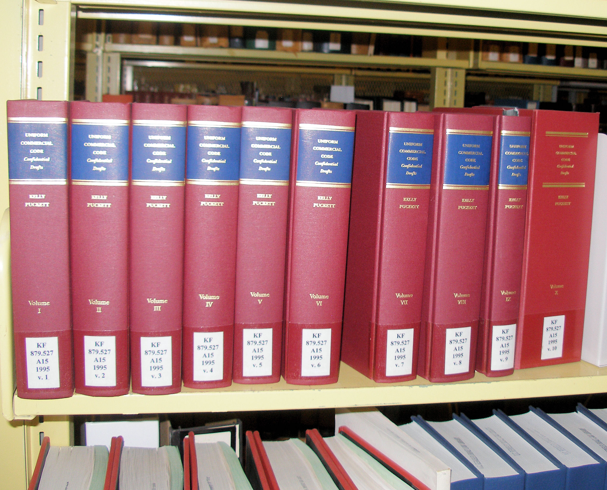 The Uniform Commercial Code is so important that even the confidential rough drafts of its sections have been preserved and published in this set of 10 volumes to aid lawyers and judges in interpreting the UCC. Photographed at the law library of the UC Berkeley School of Law.